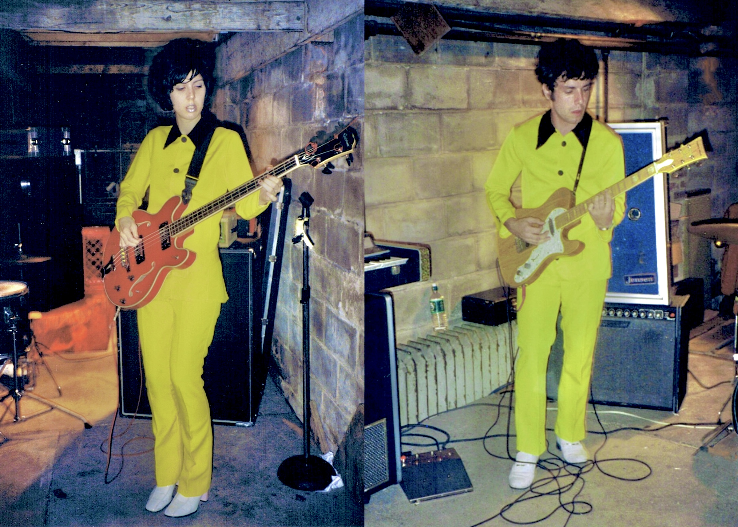 Michelle Mae and James Canty of The Make-Up wearing matching uniforms during a performance at the Shuffle House, Baltimore, 1996.